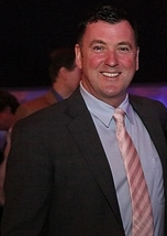 Yuzuru Hanyu with Brian Orser